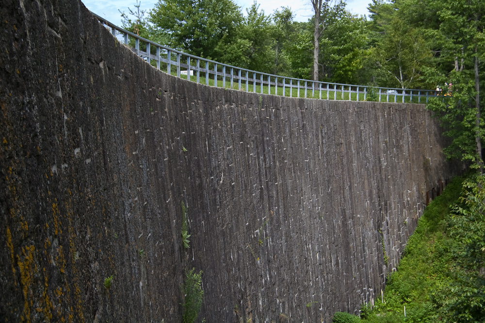 Constructed at Jones Falls of interlocking tapered vertical stones, it was one of the first of its kind when completed in 1832. At the time of completion it was the tallest dam in North America at 56 ft (19.5m).